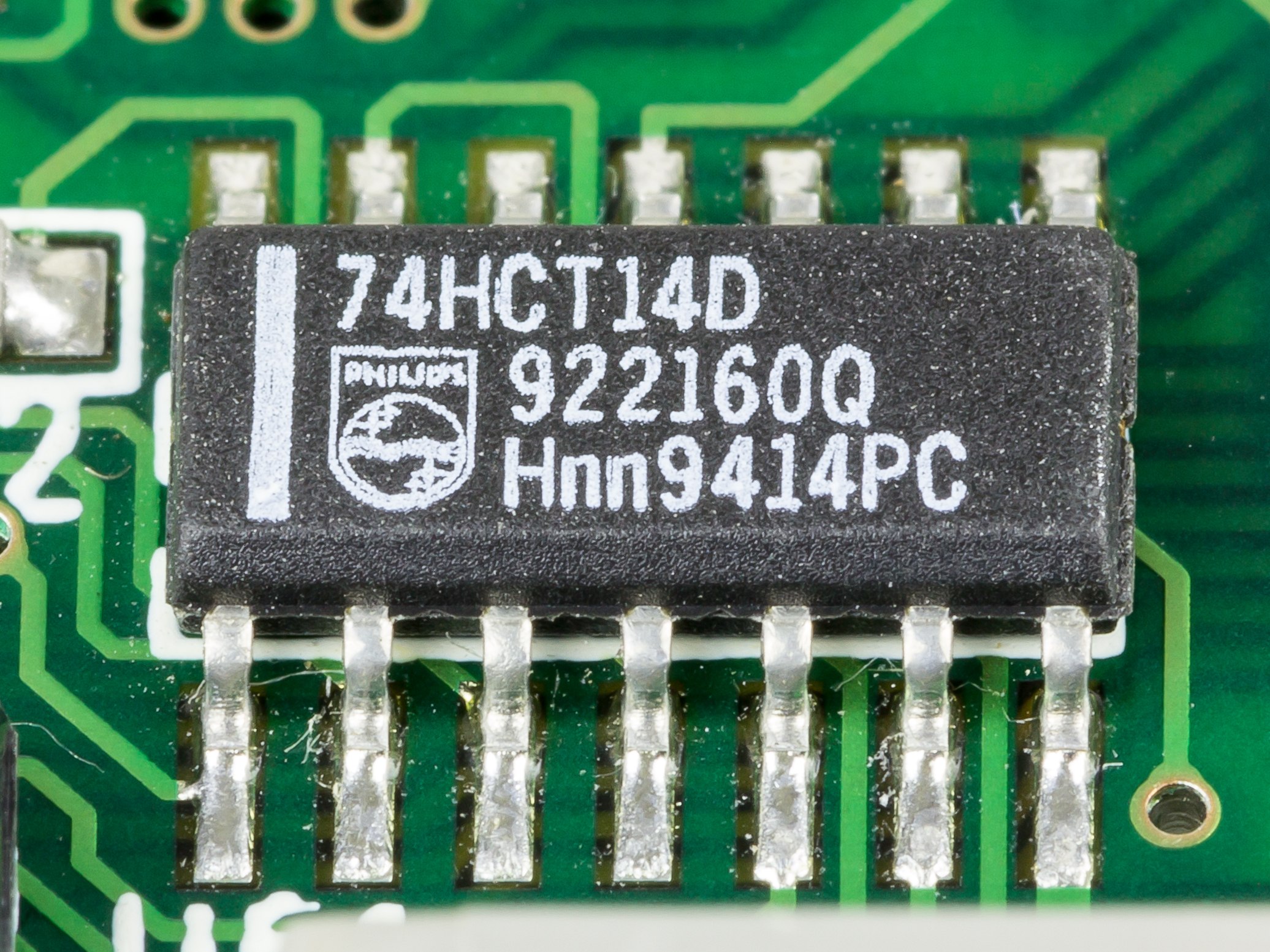 Laptop Acrobat Model NBD 486C, Type DXh2 - Philips 74HCT14D (Hex inverting Schmitt trigger) on motherboard